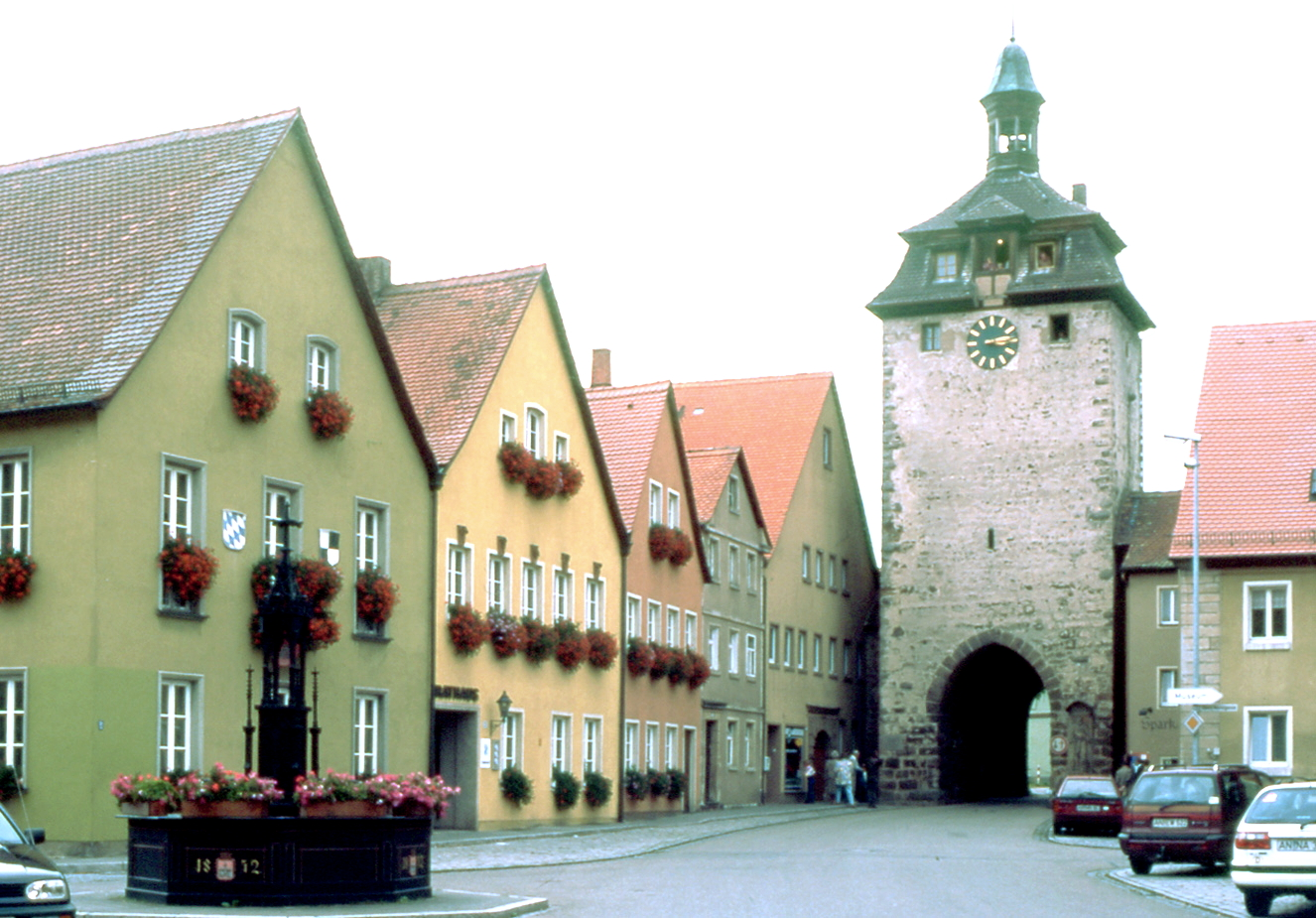 Leutershausen, a small town on the upper part of Altmuehl river